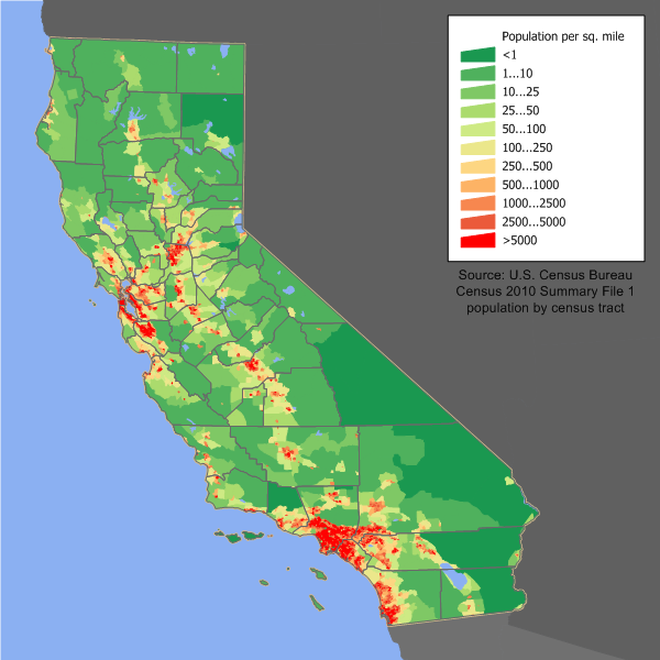 California state population density map based on Census 2010 data. See the data lineage for a process description.